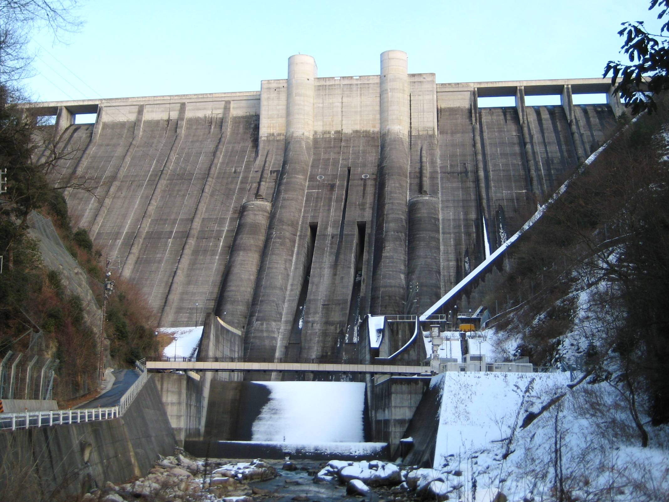 Origawa Dam.